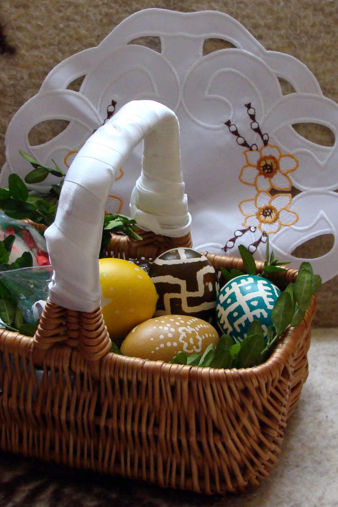 Easter egg (Jare Święto, 2009 RKP)